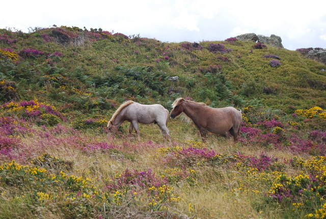 Semi wild Welsh ponies, Conwy Mountain